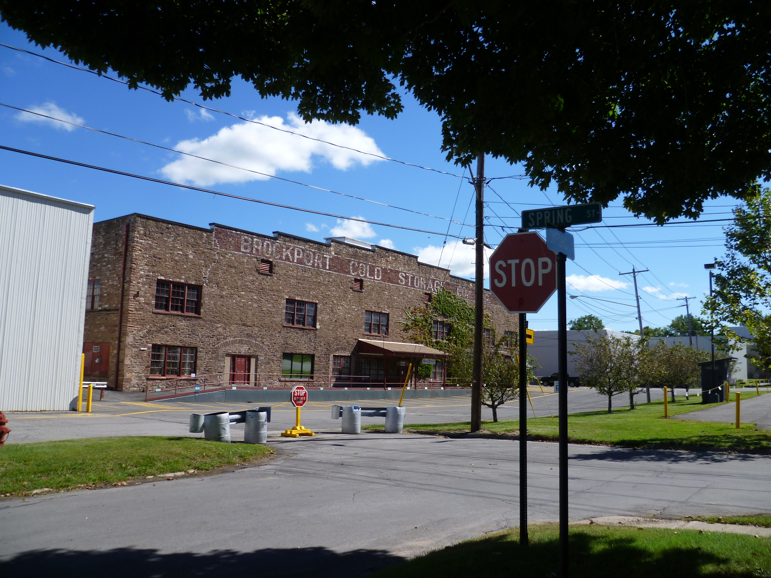 Taken from the corner of Oxford and Spring. One of the original buildings in the village.